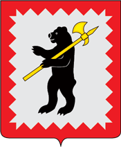 Maloyaroslavets (Kaluga oblast), coat of arms